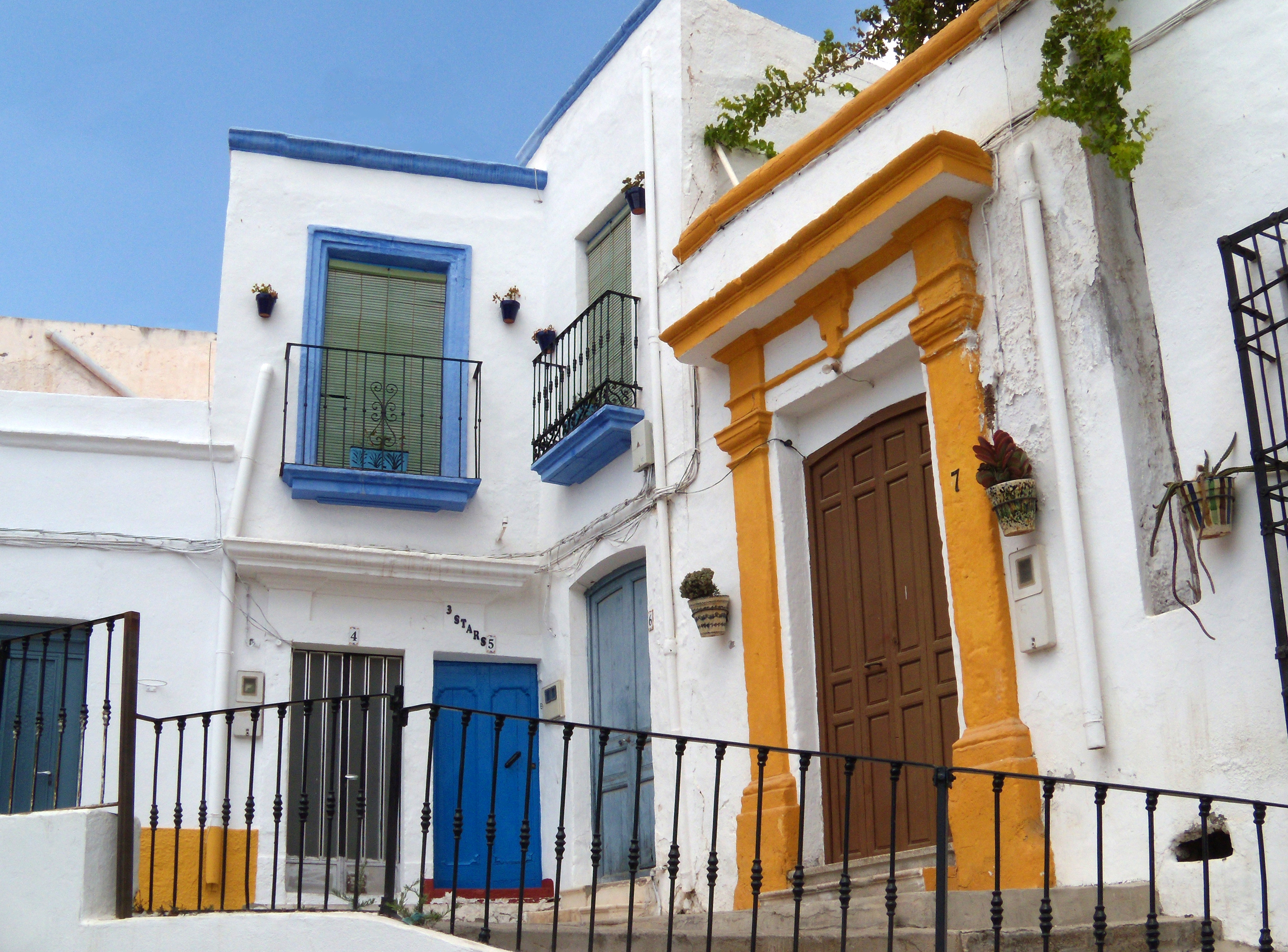 Houses in Nijar (Andalusia, Spain)